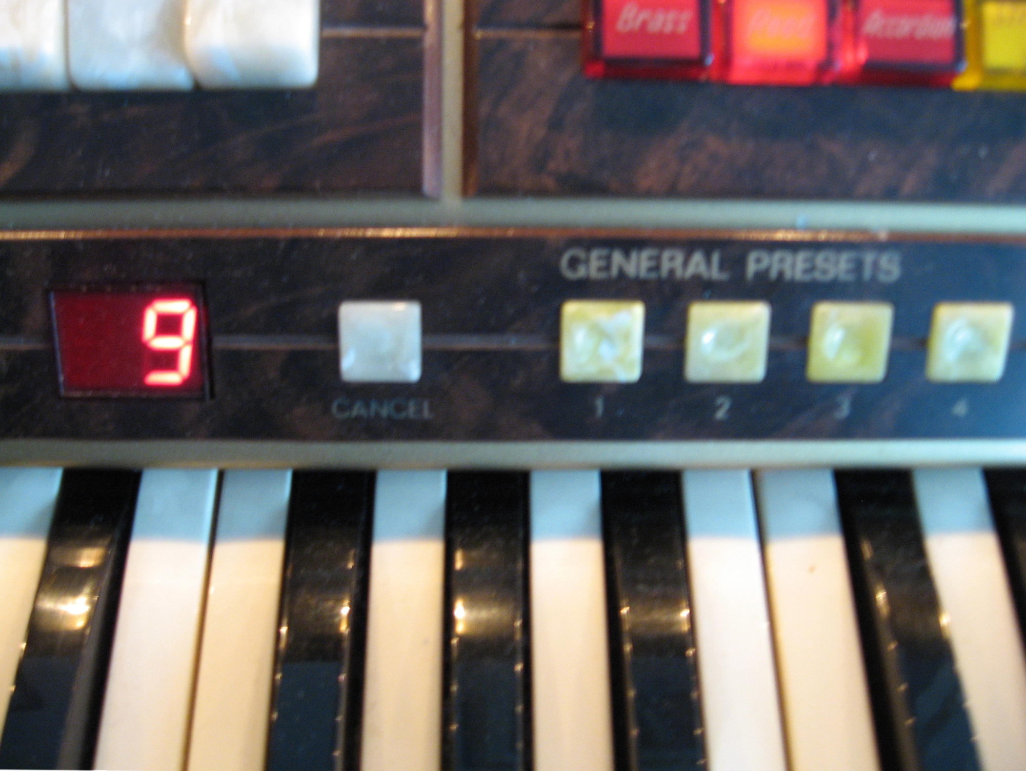 Farfisa Pergamon "General Presets"